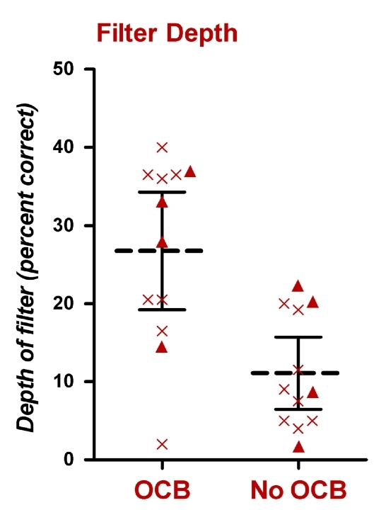 Scharfs OCB experiments, (Diagram 3 of ?)